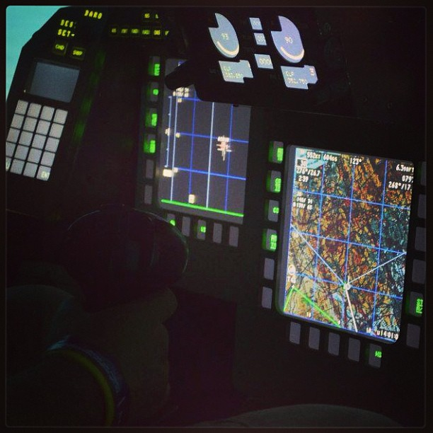 Typhoon cockpit simulator lima 2013